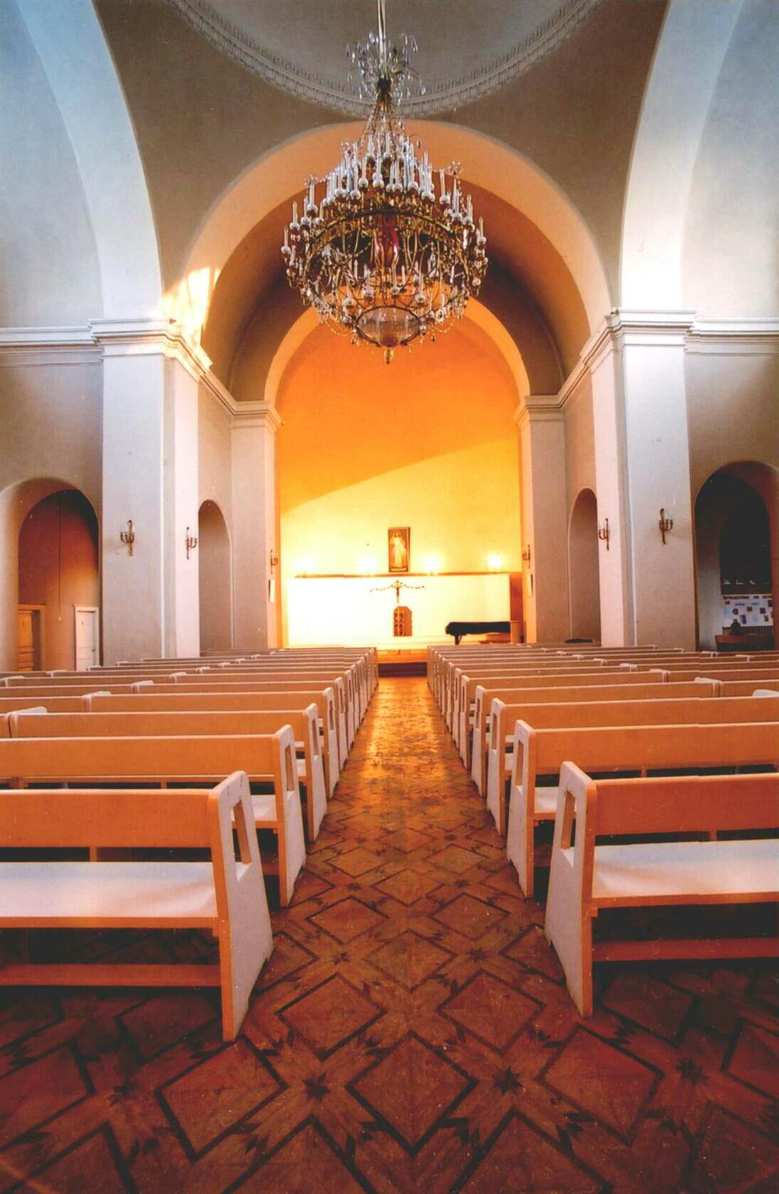 Tsarskoye Selo (Russia), Kostel